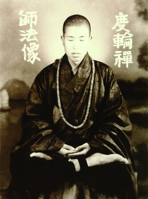 Venerable Hsuan Hua in Hong Kong, 1953. Photographer unknown.